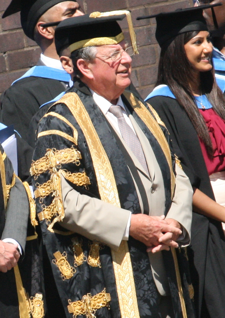 Chancellor (John Wakeham, Baron Wakeham) and Vice-Chancellor (Christopher Jenks) of Brunel stand ready with some graduates